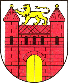 Coat of Arms of Gernrode